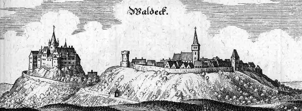 This is a scan of the historical document: Title: Waldeck - Topographia Hassiae language: german